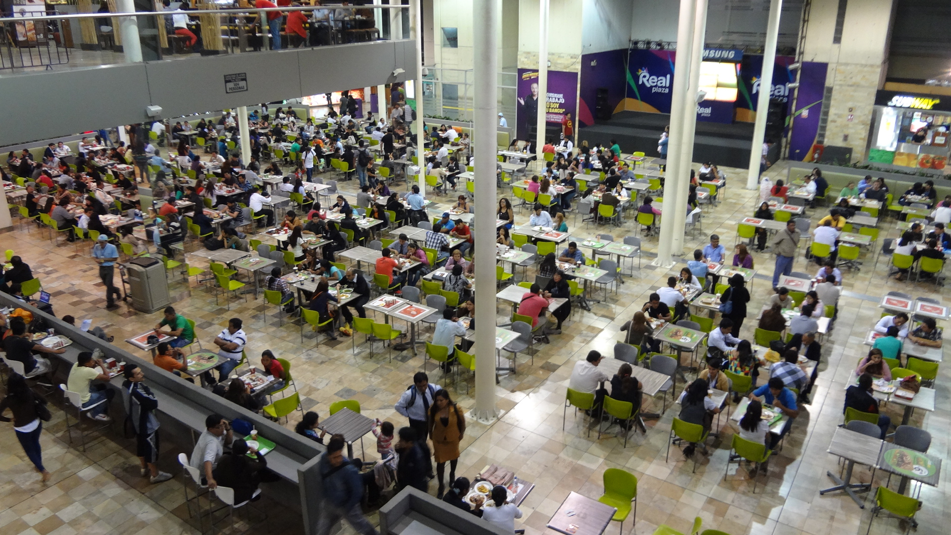 Real Plaza Centro Civico's food court.